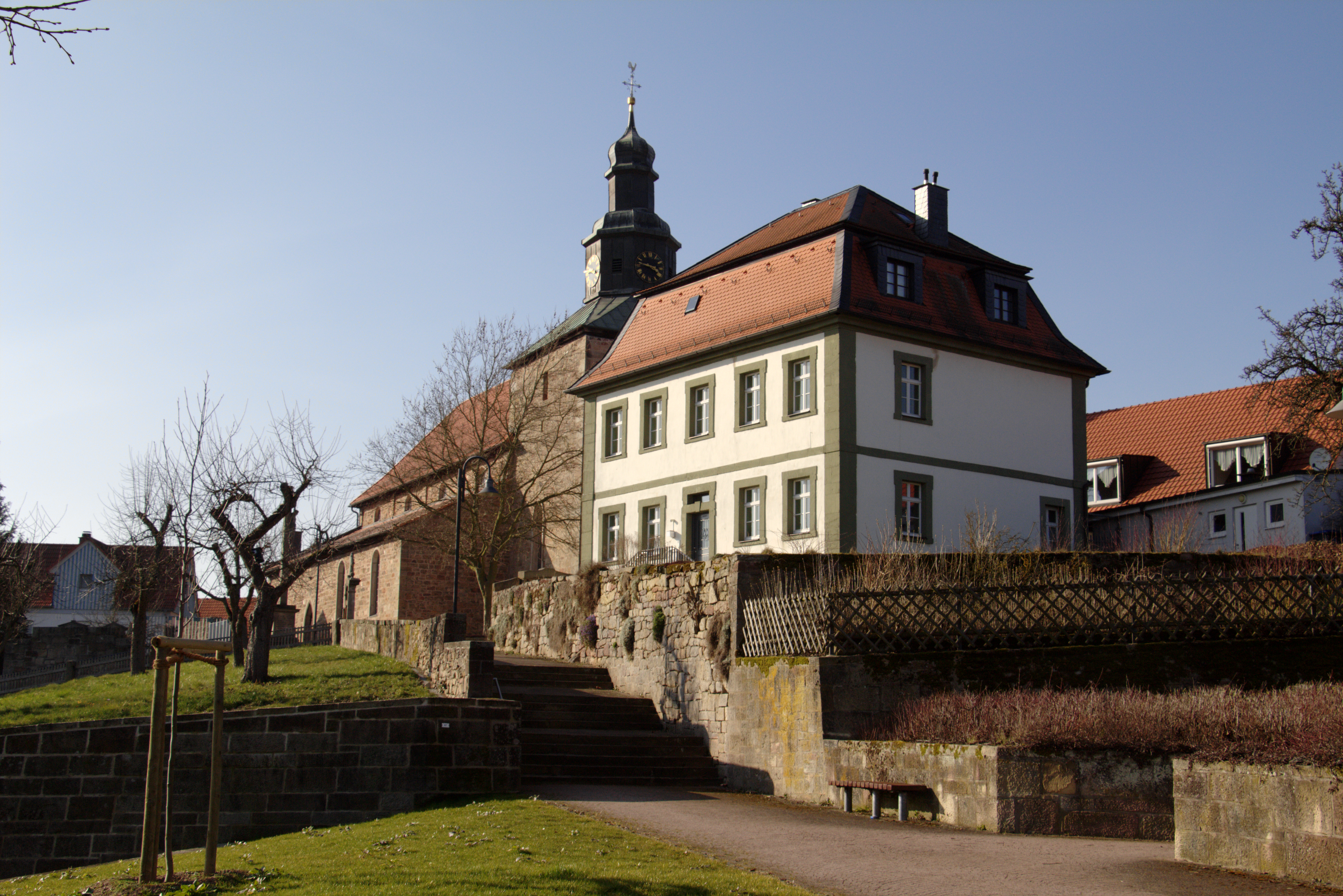 Catholic Church St. Aegidius in Marbach, Petersberg, Hesse, Germany